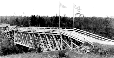 A photo of the original bridge crossing the Pigeon River between Minnesota and Ontario. The border-crossing bridge was constructed without Federal approval by the rotary clubs of Duluth and Port Arthur (now Thunder Bay) and opened to traffic on August 18, 1917. This created the first road link into Port Arthur.